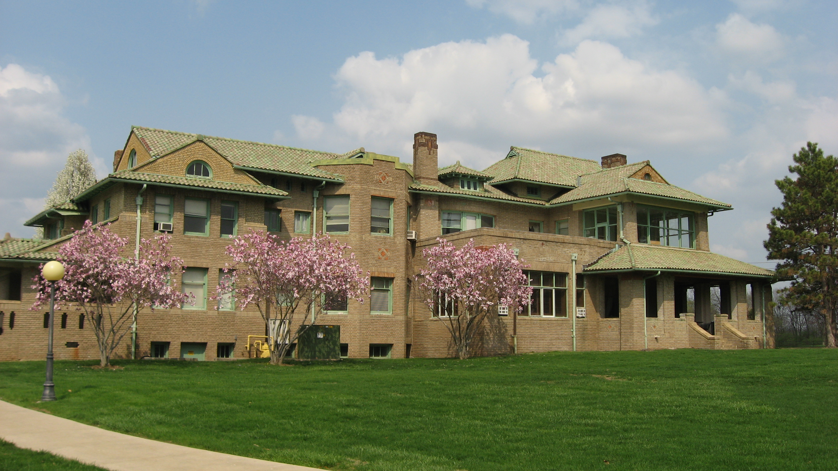 Southern side of the Wheeler-Stokely Mansion, located at 3200 Cold Spring Road in Indianapolis, Indiana, United States. Built in 1912, it is listed on the National Register of Historic Places.